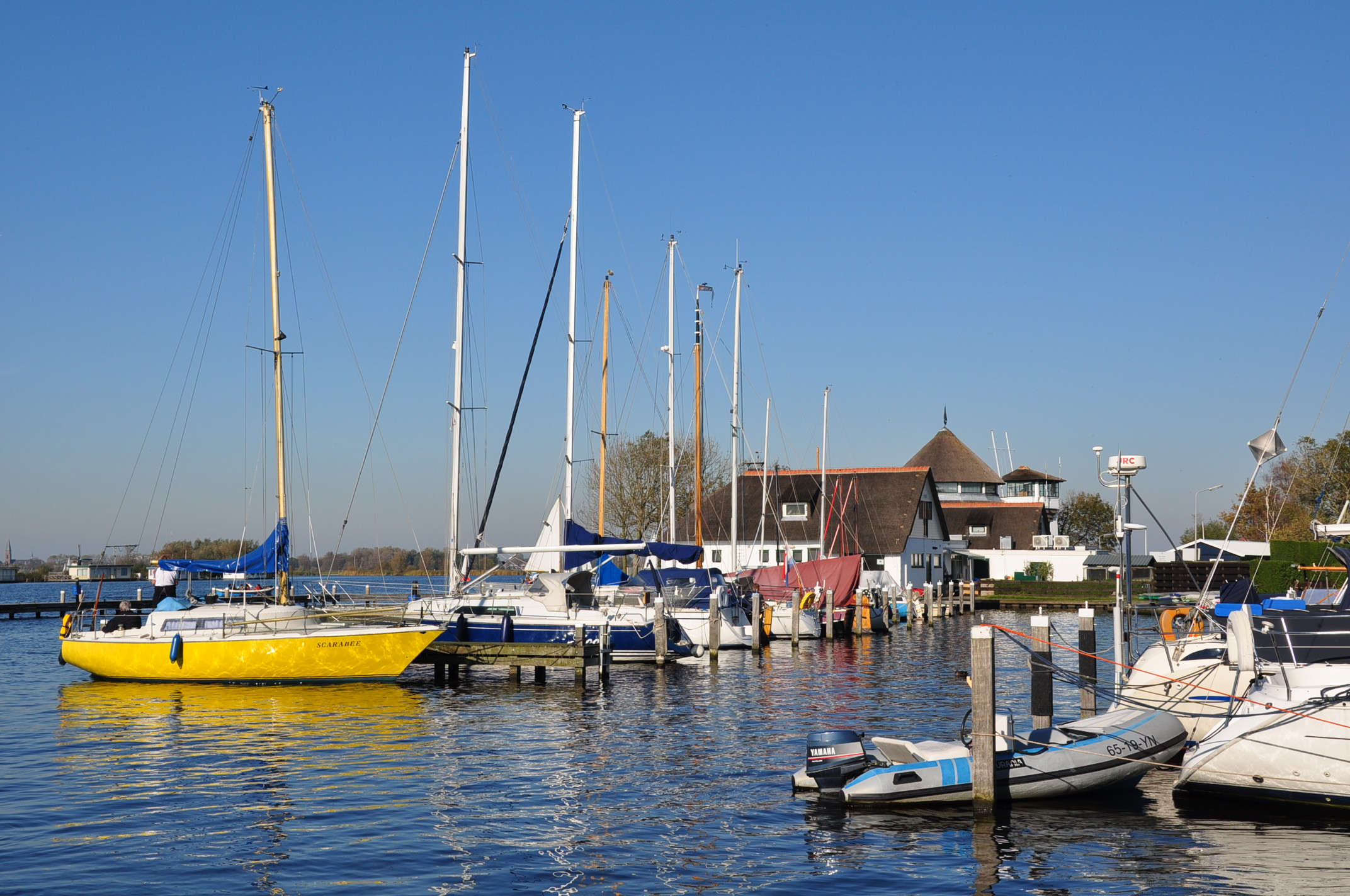 The 'Kaag Club' with small marina, Kaag Lakes (municipality Teylingen, Province South Holland, Netherlands).